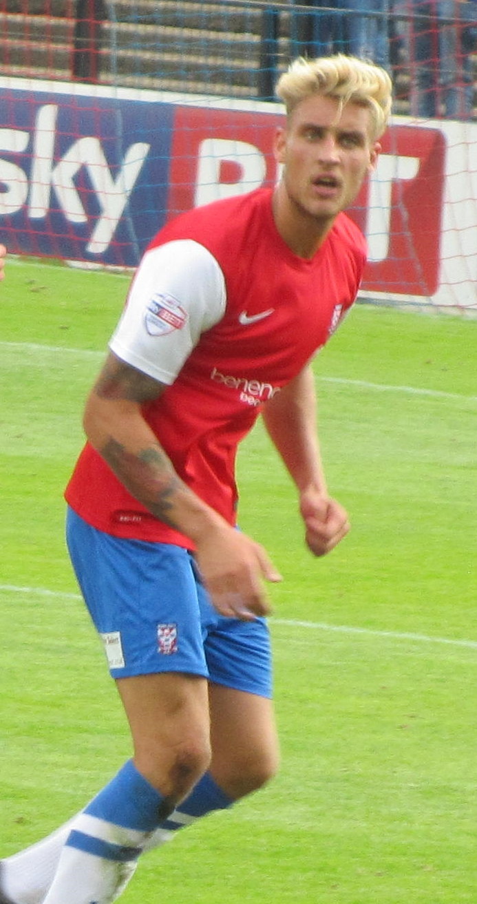 George Taft playing for York City against AFC Wimbledon at Bootham Crescent, York on 7 September 2013